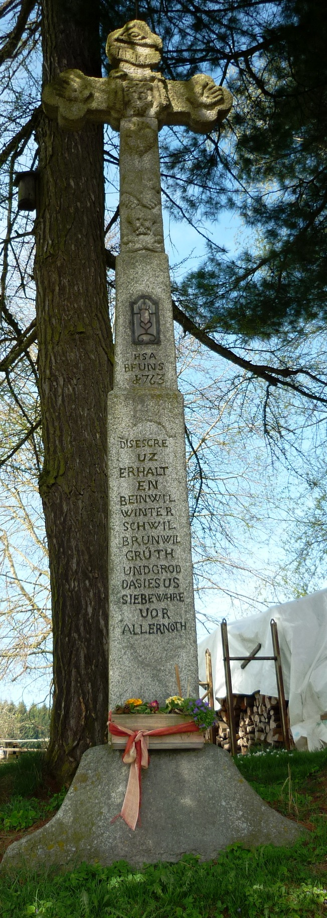 Calvary (sculpture), Grod Beinwil (Freiamt), Switzerland Wegkreuz Grod Beinwil (Freiamt), Schweiz